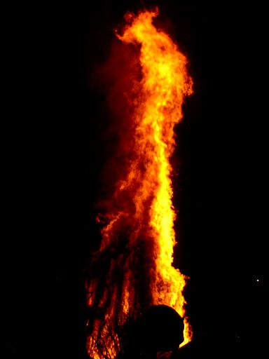 Bonfire of Giobiassa in Cantù, Lombardy, 2007 Piemontèis: Scarlo dla Giobiassa a Cantù, Lombardia, 2007